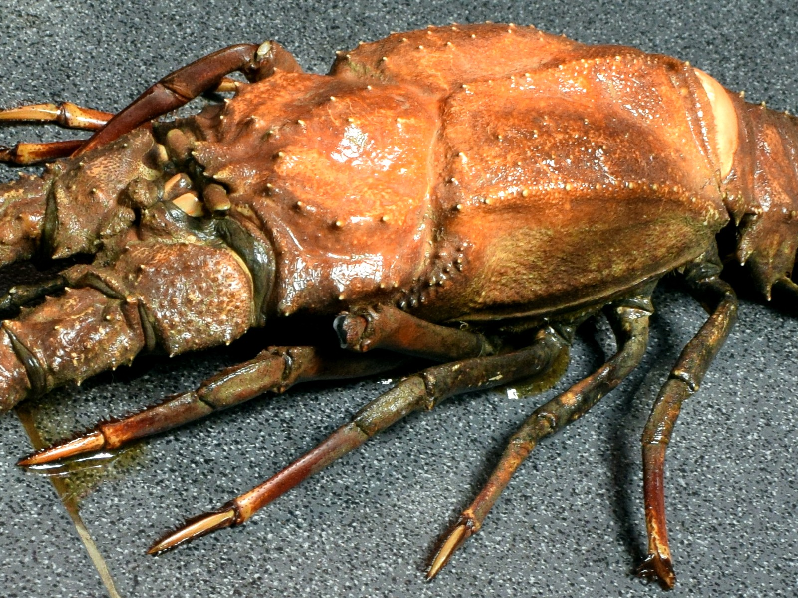 Indian Ocean spear lobster, Linuparus somniosus. Female, 134 mm CL (carapace length). From Palabuhanratu Fish Market, West Java, Indonesia. Carapace close-up.